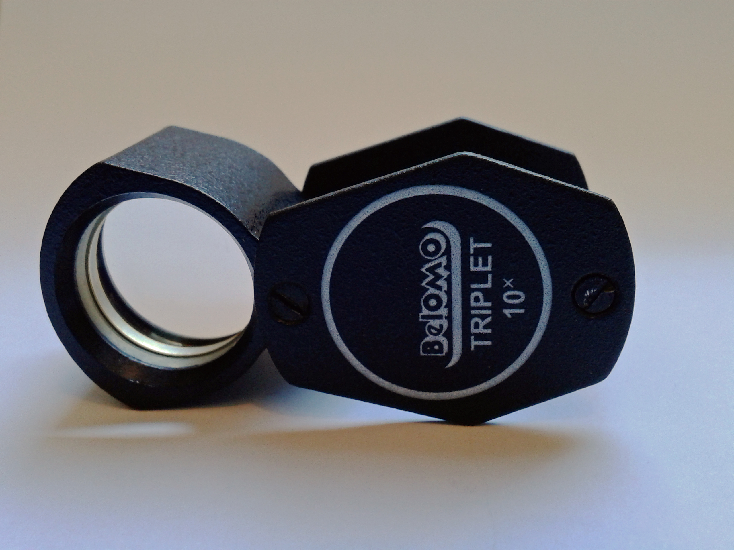 BelOMO LP-3-10× achromatic triplet (jewellers') loupe. This loupe is made in Belarus and finished with black non reflecting surfaces and the lenses are fully multi-coated. A true triplet loupe has an optical system consisting of three compounded optical elements or lenses of different refractive indexes designed for optimal image quality. The Triplet lens-system is made up of two identical concave high index (flint glass) meniscus elements cemented to a double convex low index (crown glass) element and combines the aplanatic features of a distortion free sharp image with the color correction of an achromatic lens. A magnification of 10× is required and hence used by professionals for the examination and grading of precious gems and minerals. Magnification ratio: 10 times Optical schema: Achromatic Triplet Focal distance: 28 mm (1.1 inch) Linear field of view: 17 mm (0.67 inch) Overall dimensions: 36 x 28 x 25 mm (1.54 x 1.1 x 0.98 inch) Weight: 63 g (2.22 ounce)